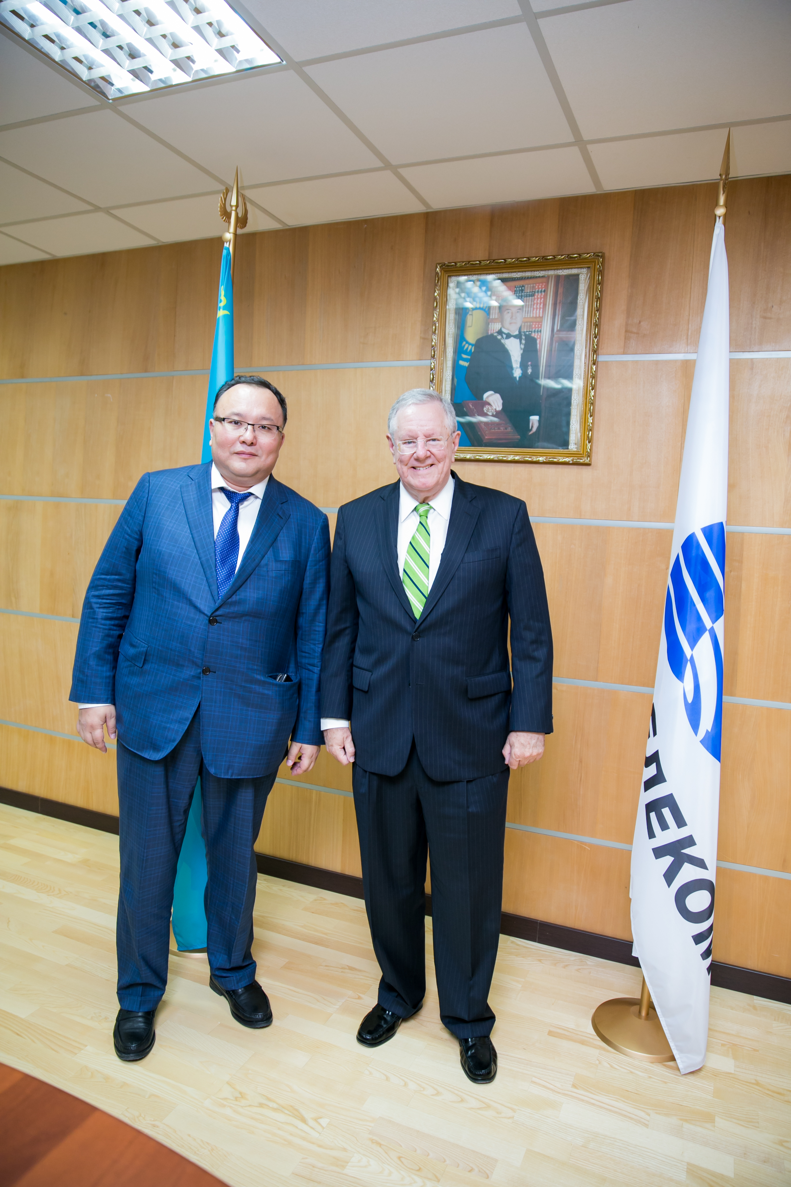 Steve Forbes visits KazakhTelecom during Astana Economic Forum, Kazakhstan.